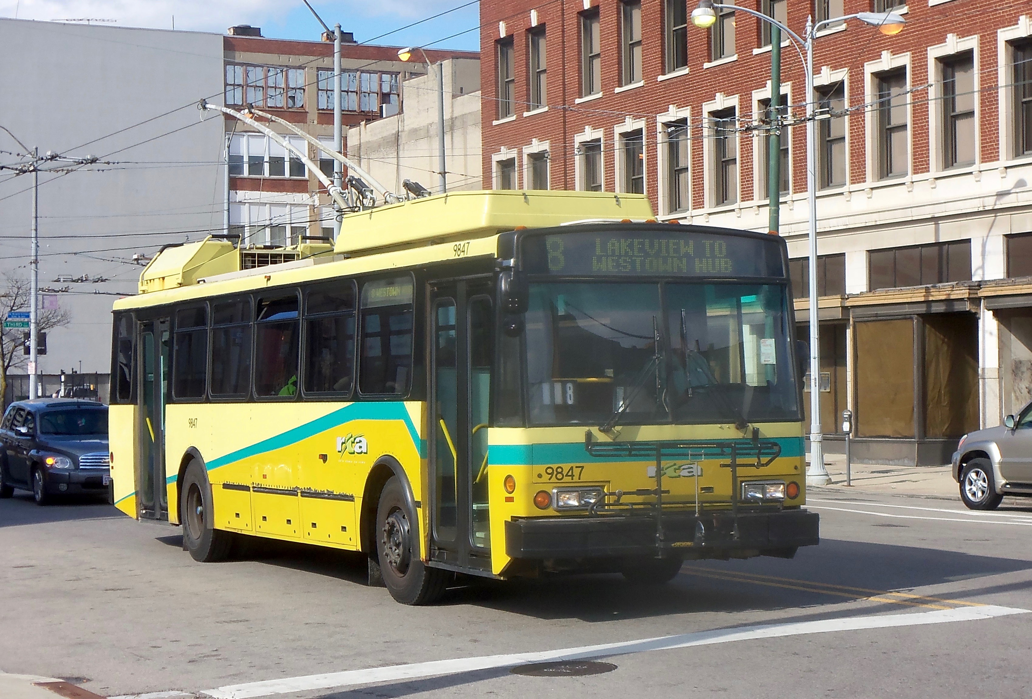 Dayton ETI trolleybus 9847 (a 1999-built 14TrE2) on Jefferson Street, about to turn into Wright Stop Plaza, the Greater Dayton Regional Transit Authority's downtown transit center. No. 9847 was completed in 1999 and delivered to RTA on April 12, 1999.